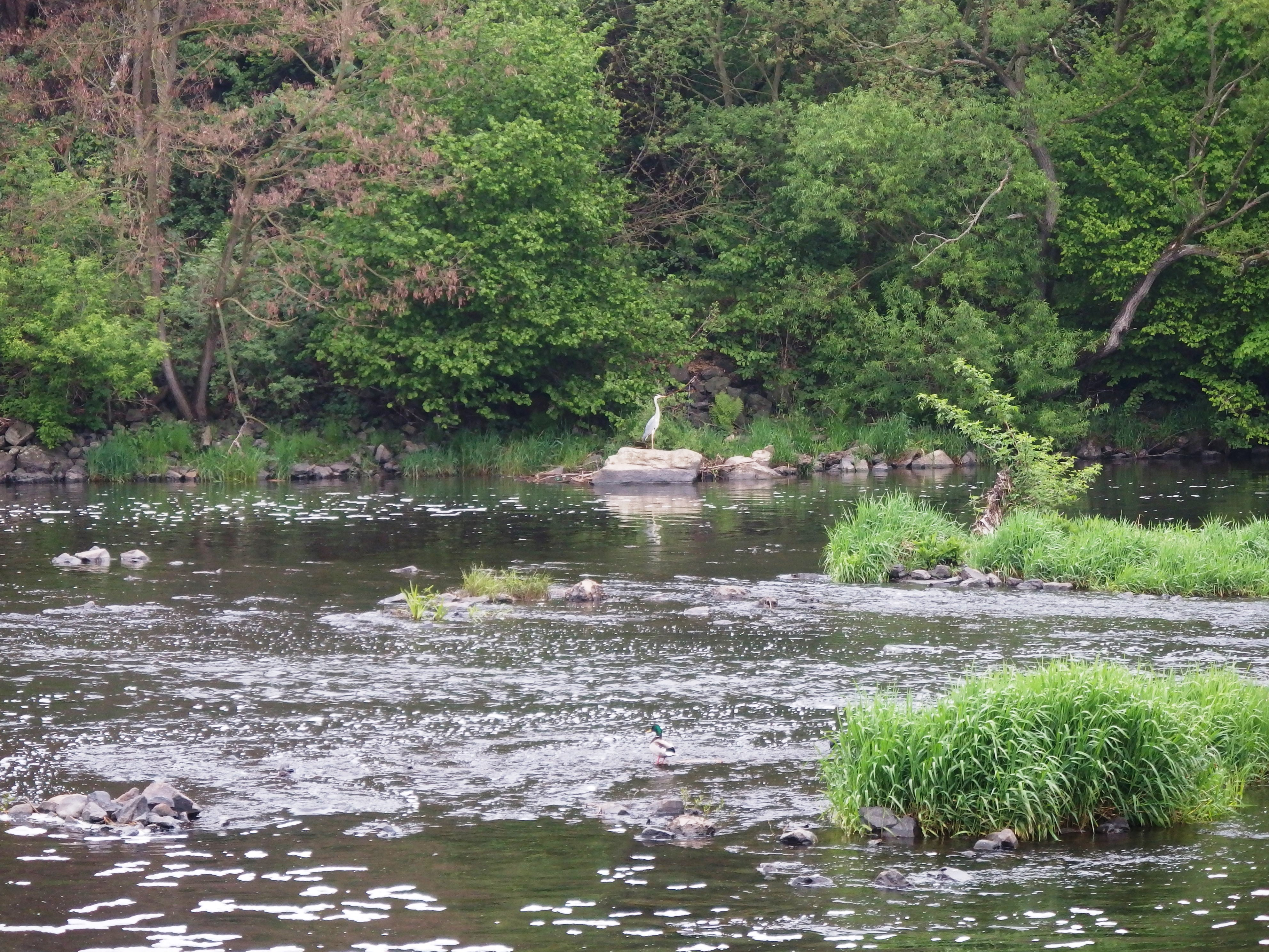 Rokle, Chomutov District, Czechia, part Želina.